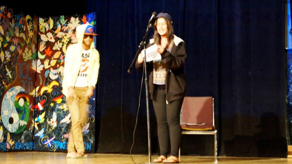 Underground Rap